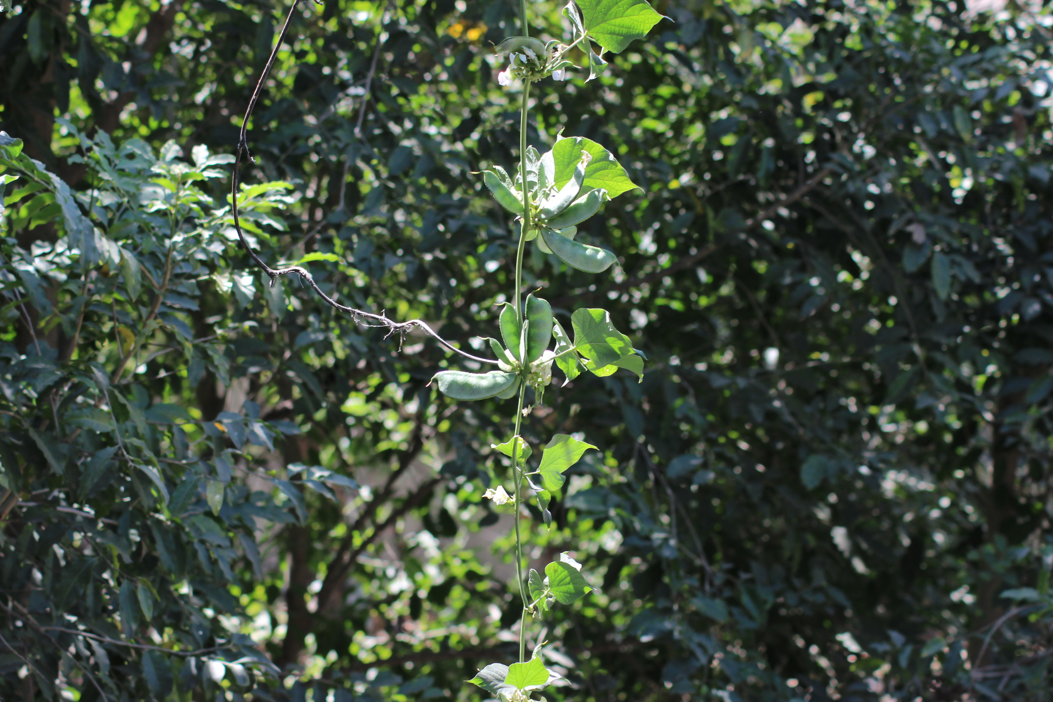 Bean creeper